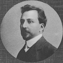 Mikael Papadjanov, Armenian lawyer, a member of the Fourth Russian State Duma, 1913-1917